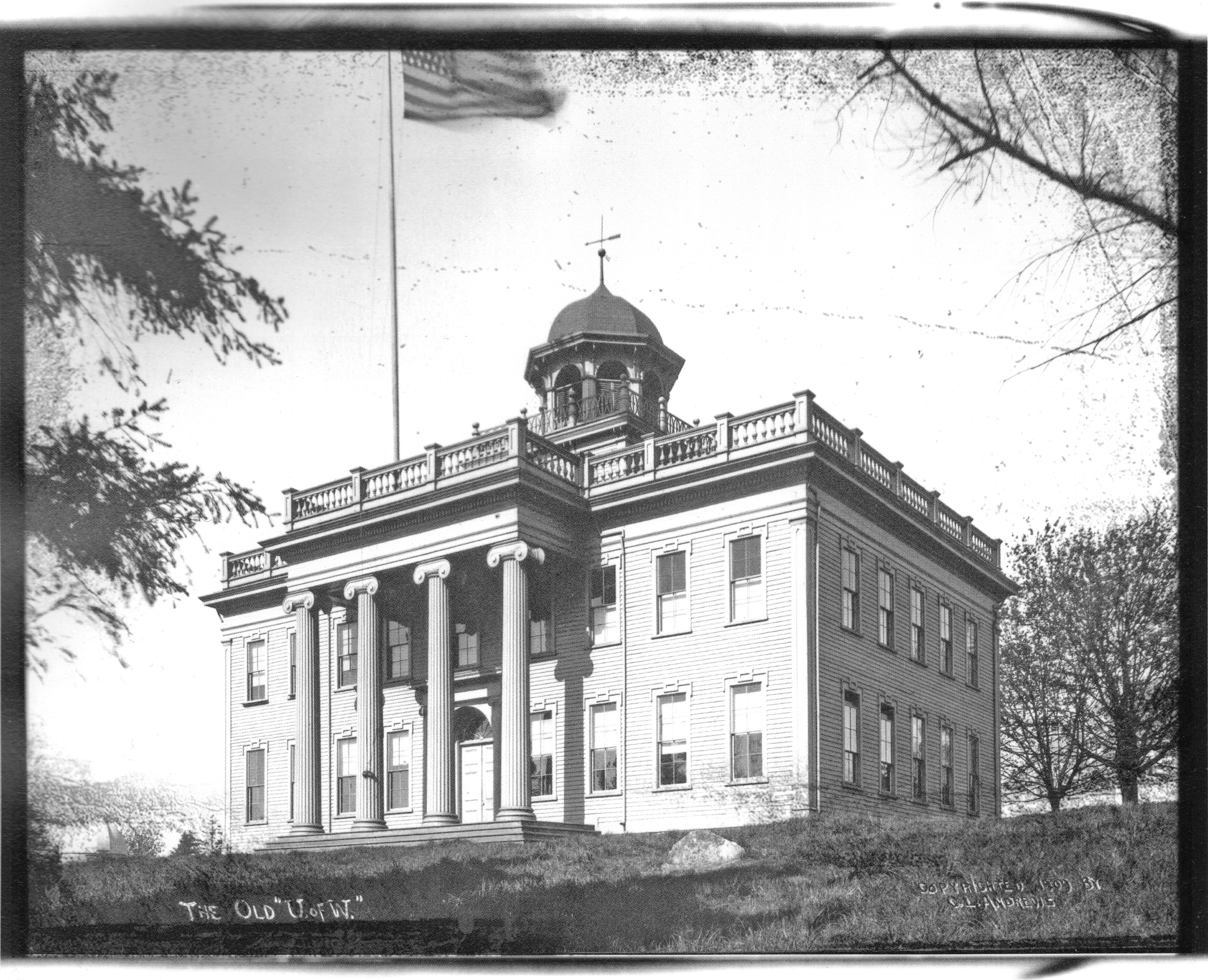 The original (downtown Seattle, Washington, USA) University of Washington building. Inscription at lower left says "The old 'U. of W.'". Inscription at lower right says "Copyright 1909 by C.L. Andrew".